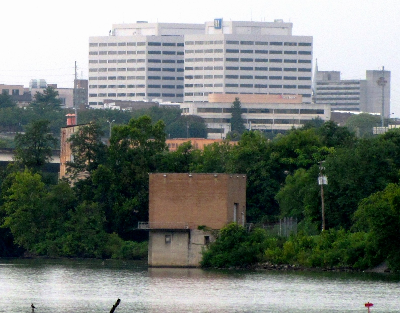 The TVA Towers, viewed from the Island Home Airport in Knoxville, Tennessee, USA. The Tennessee River is in the foreground.